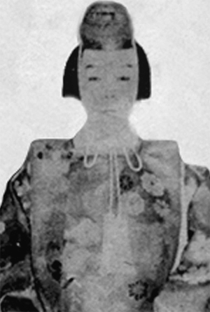 Moshiho Nakamura IV (1909–88) as Ashikaga Tadayoshi in the November 1947 Tokyo Theatre production of Kanadehon Chūshingura, Opening Act